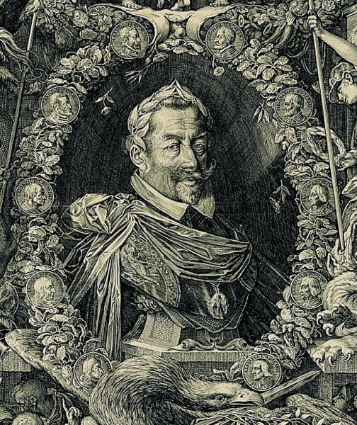 Matthias, Holy Roman Emperor. Copper etching.